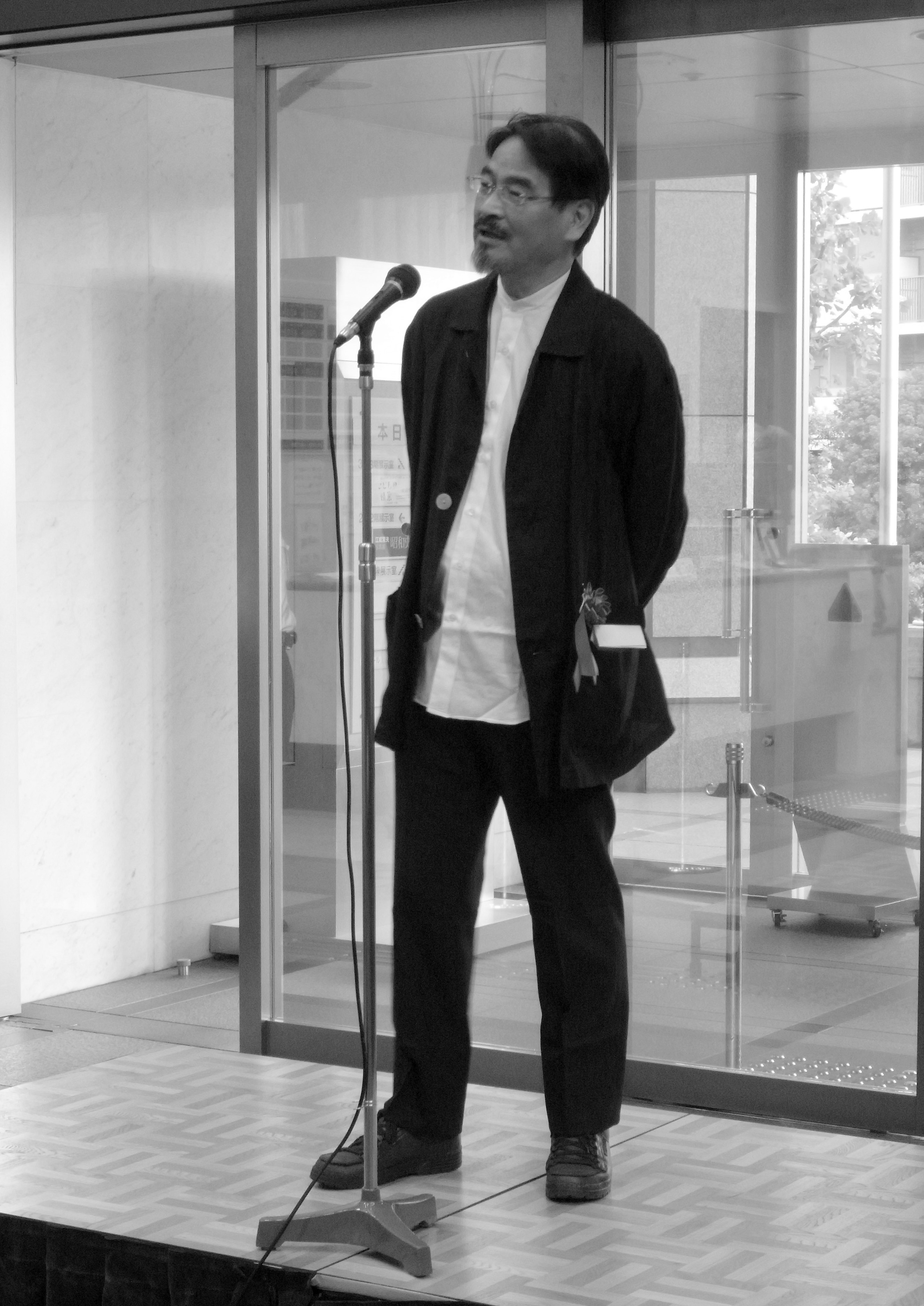 Hiroh Kikai (鬼海弘雄) talks at the reception for his exhibition "Tokyo Portraits" (東京ポートレイト), at the Tokyo Metropolitan Museum of Photography (東京都写真美術館), 12 August 2011.